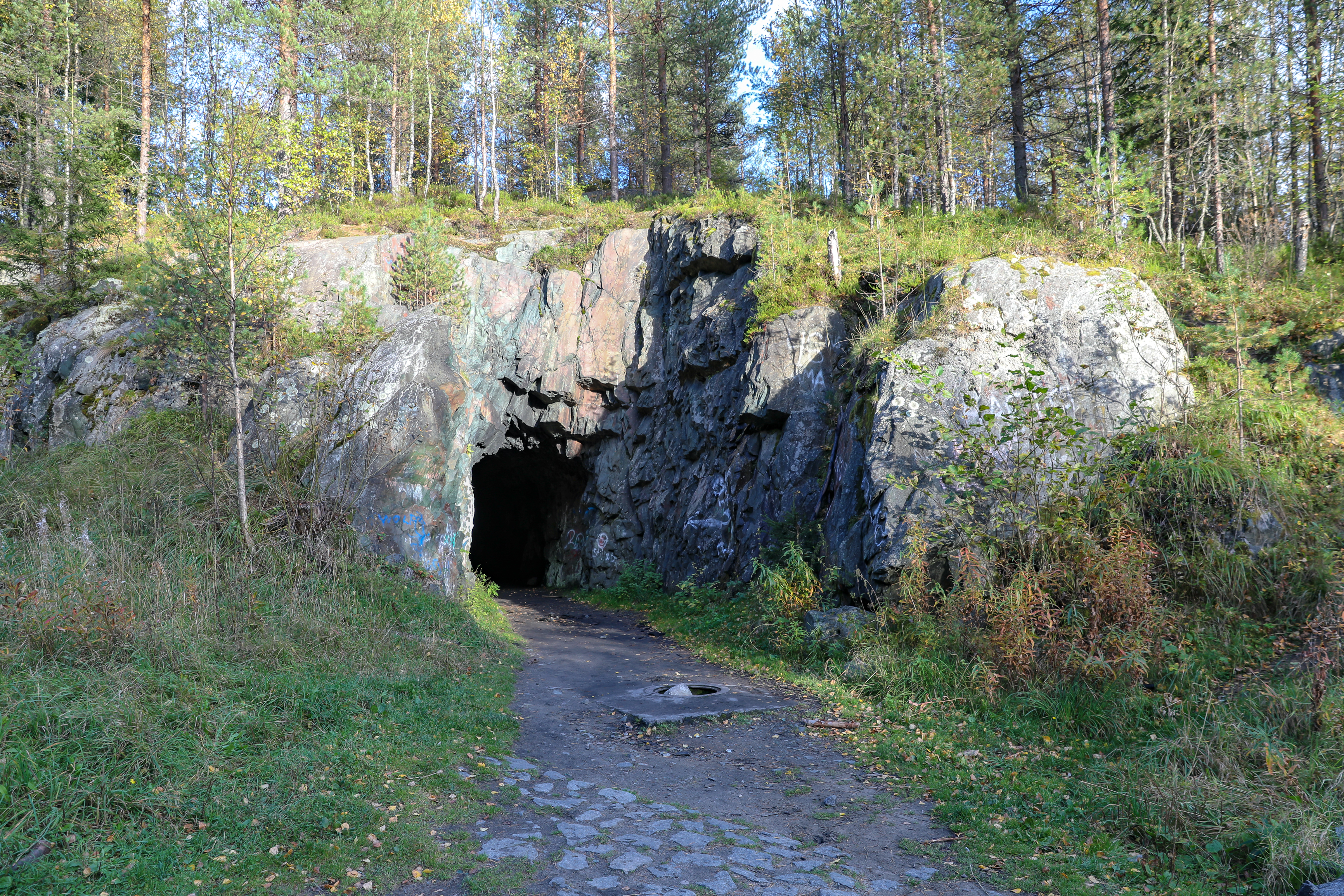 Cave in Medvezhyegorsk built by the Finnish Army in 1941-1944, Russia